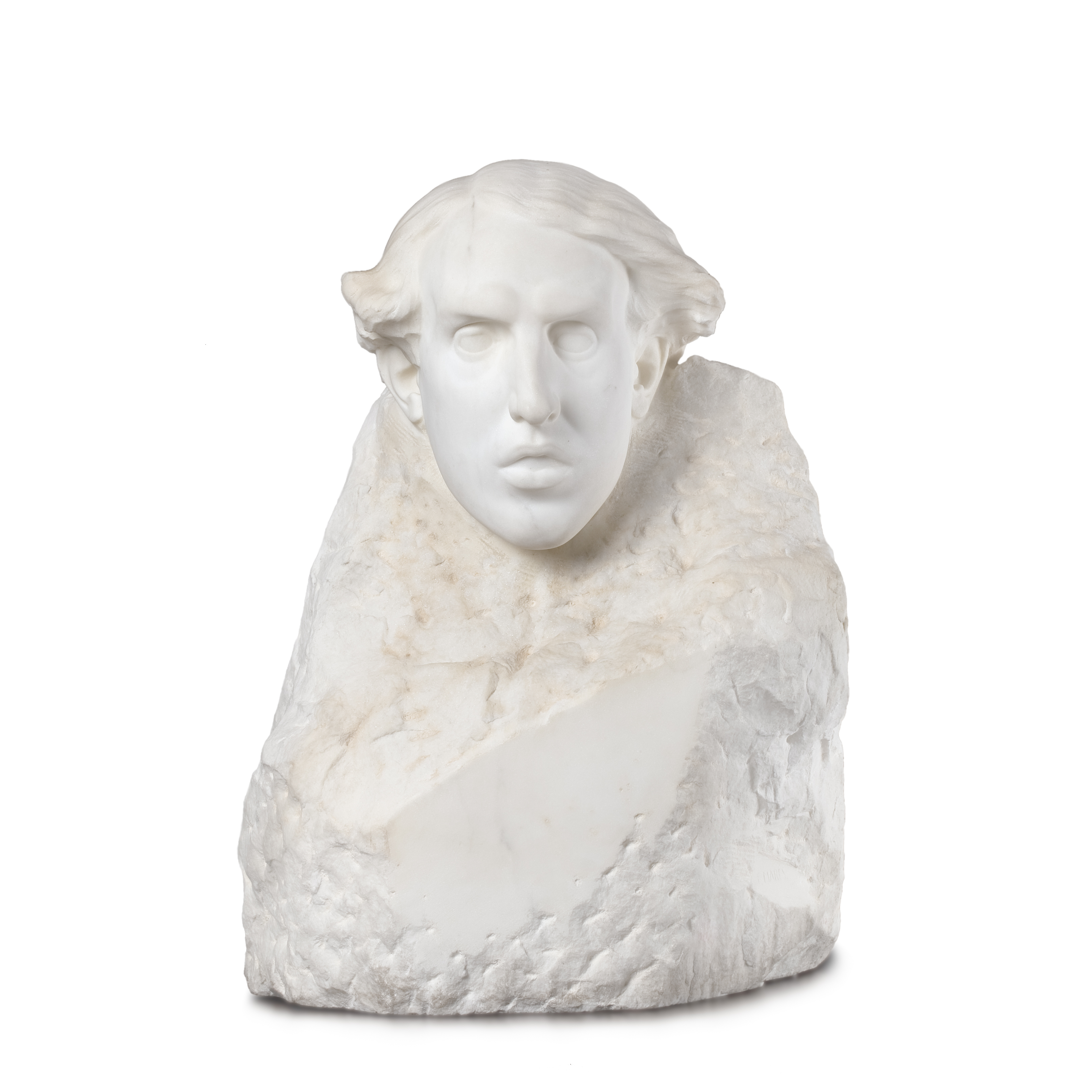 Portrait of Jaume Pahissa